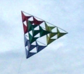 Photo by Gustavo Furtado Tetrahedral Kite flying